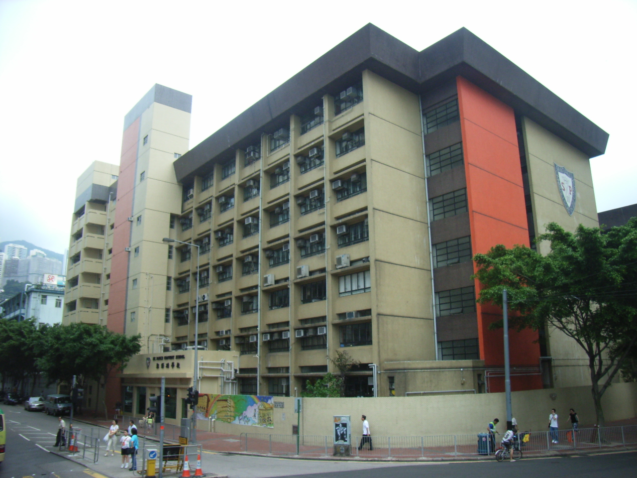 聖保祿學校在銅鑼灣禮頓道140號 St Paul's Convent School, Causeway Bay. Photographer: MSUCWB